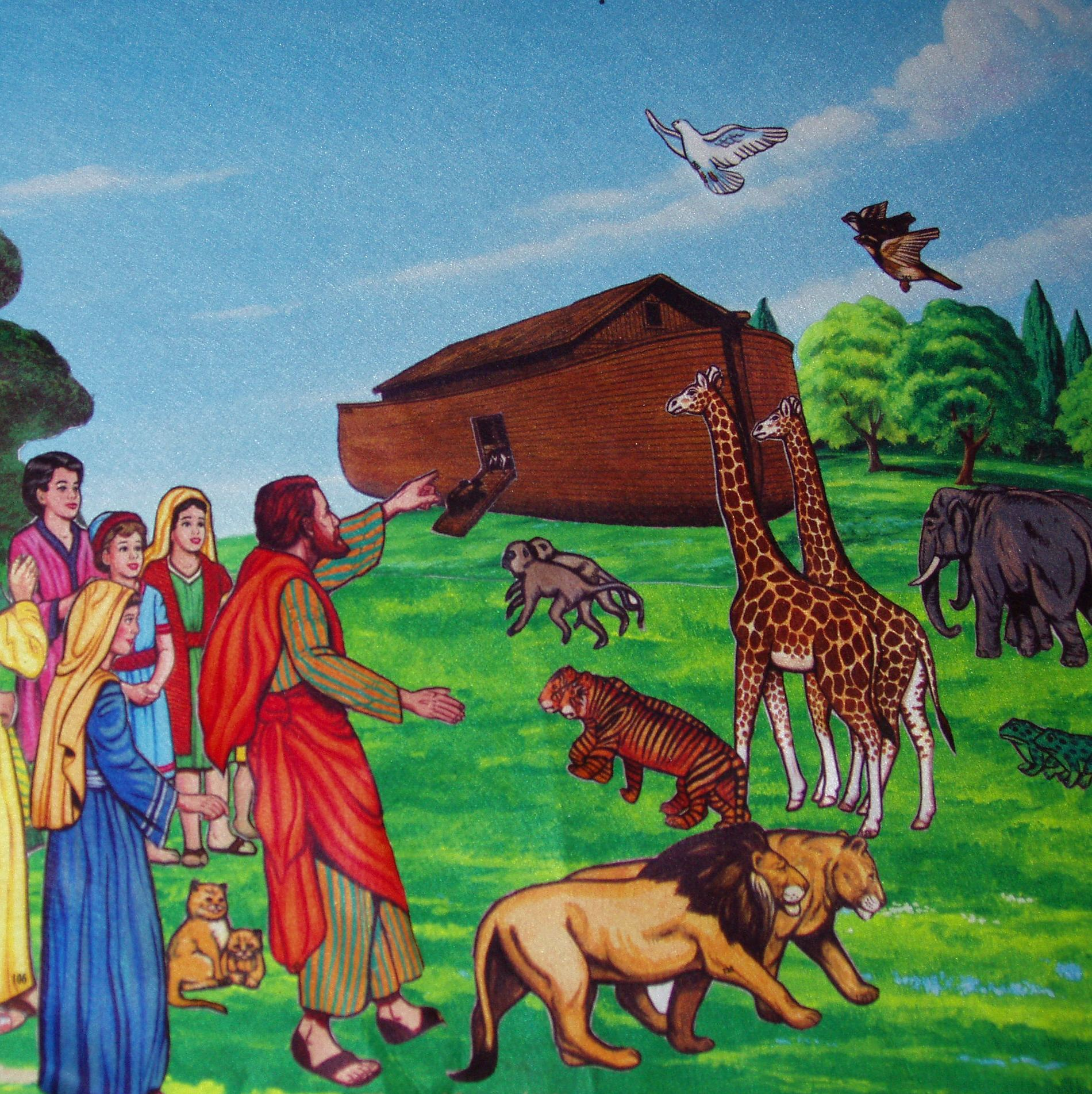 Scene from the story aboat Noah, illustratetd by a flannelgraph